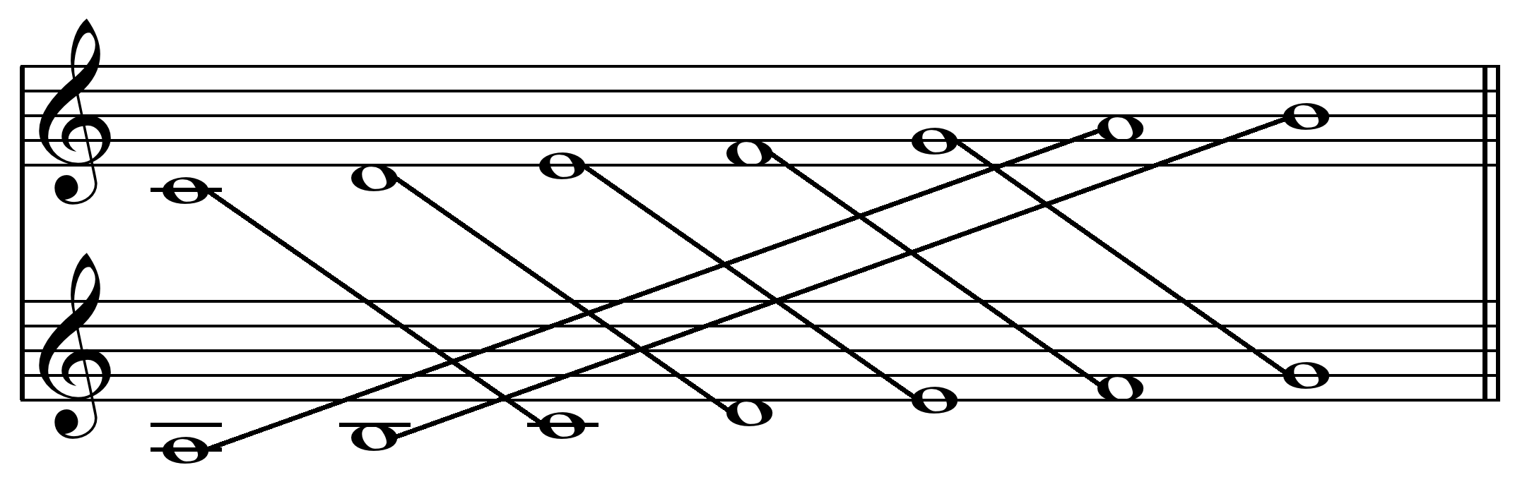 Relative major and minor scales on C and a with shared notes connected by lines.